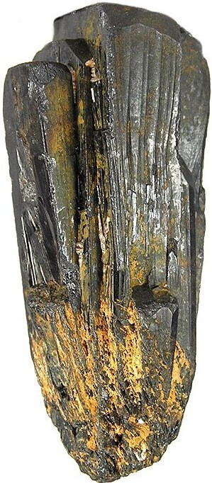 Ferrocolumbite, Manganotantalite Locality: Betafo District, Vakinankaratra Region, Antananarivo Province, Madagascar (Locality at ) Size: small cabinet, 6.0 x 2.5 x 2.1 cm Columbite/Tantalite This is a large, heavy, long prismatic, lustrous but opaque crystal cluster, combining two elements much in demand for making vital, metallic alloys. The color is blackish-brown, and the specimen is in very good shape, quite aesthetic overall. Ex. Richard Hauck Collection.